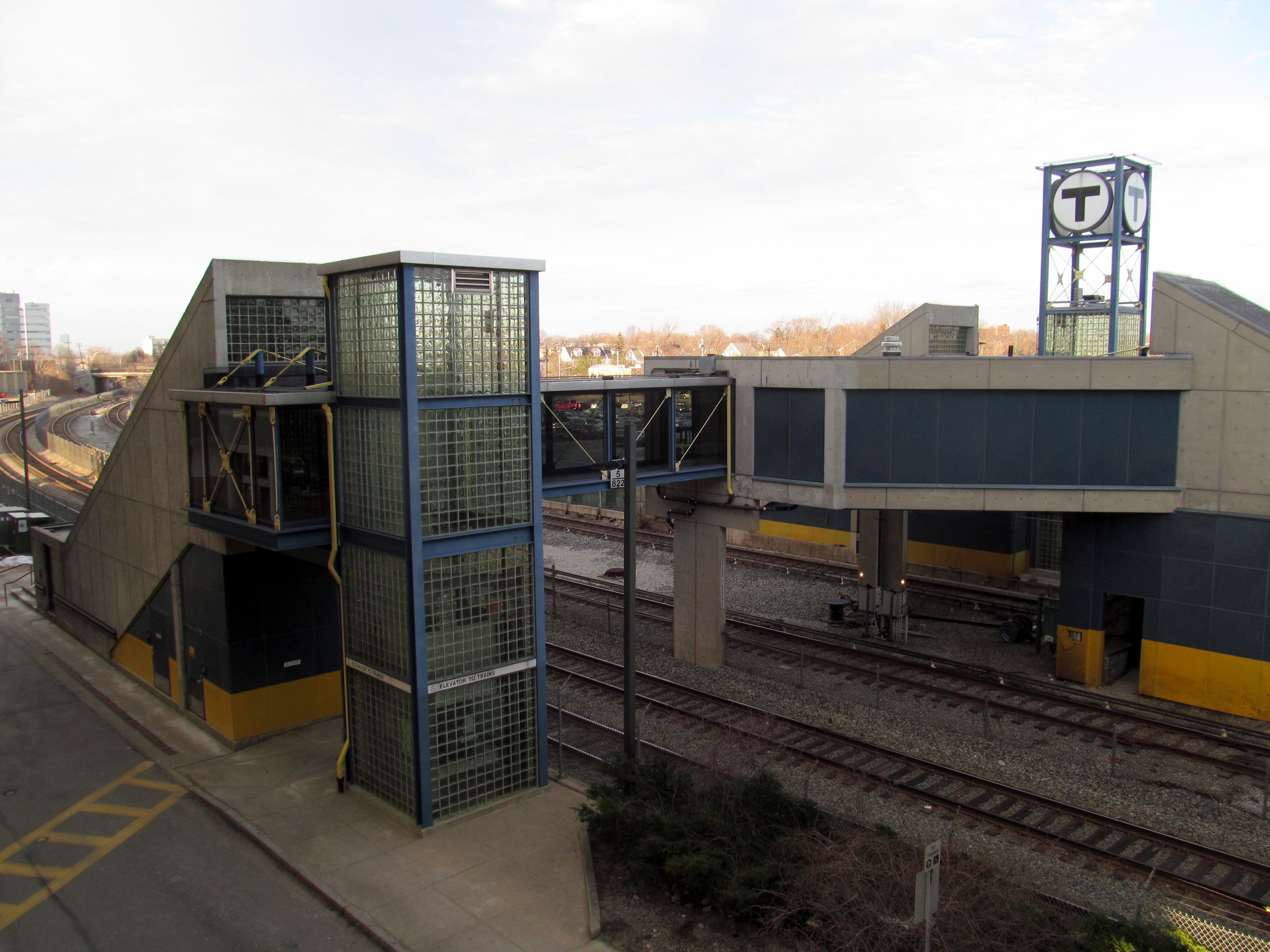 North headhouse of North Quincy station photographed from the garage in January 2016